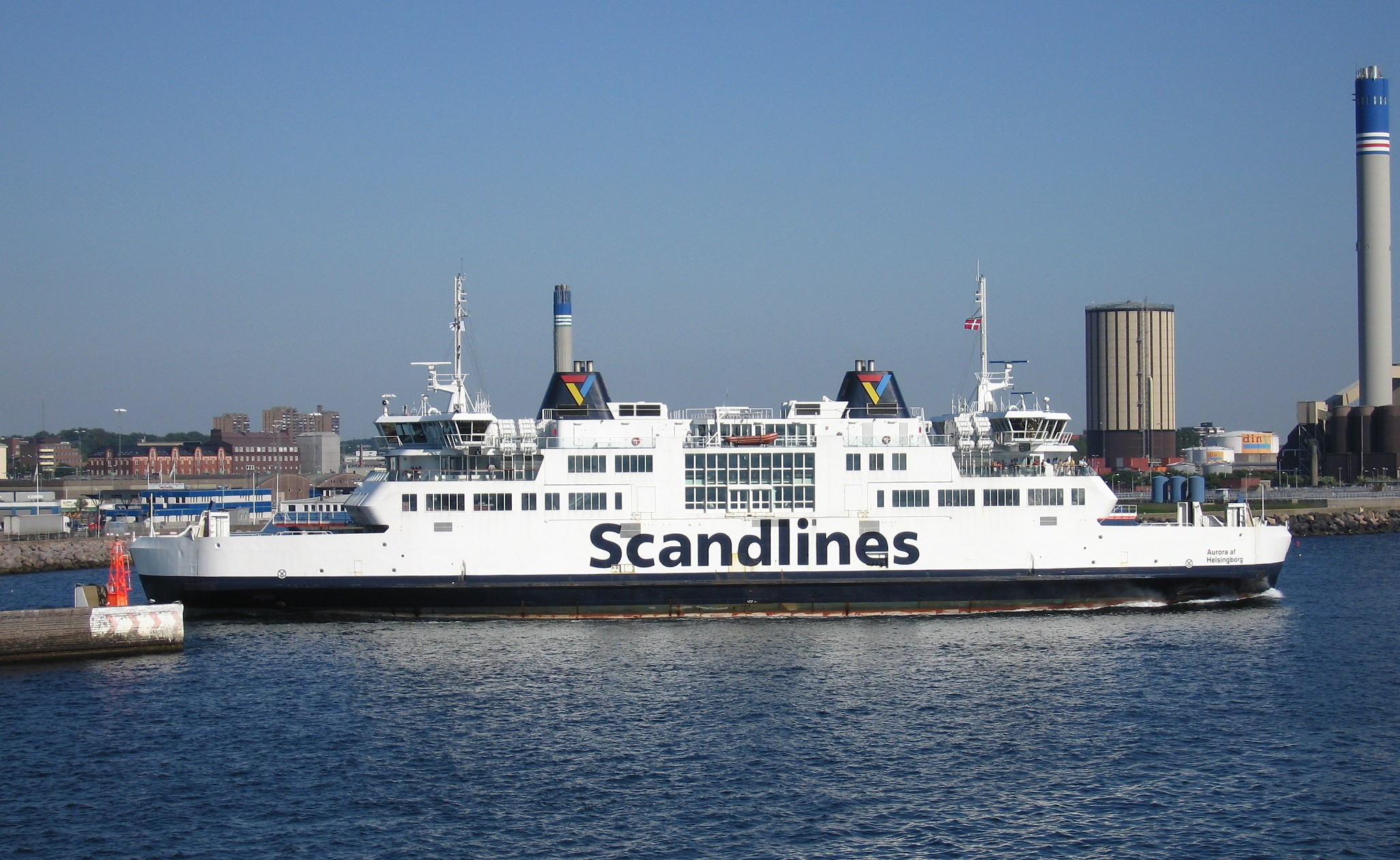 Scandlines ferry Aurora af Helsingborg in Helsingborg harbour, Sweden.